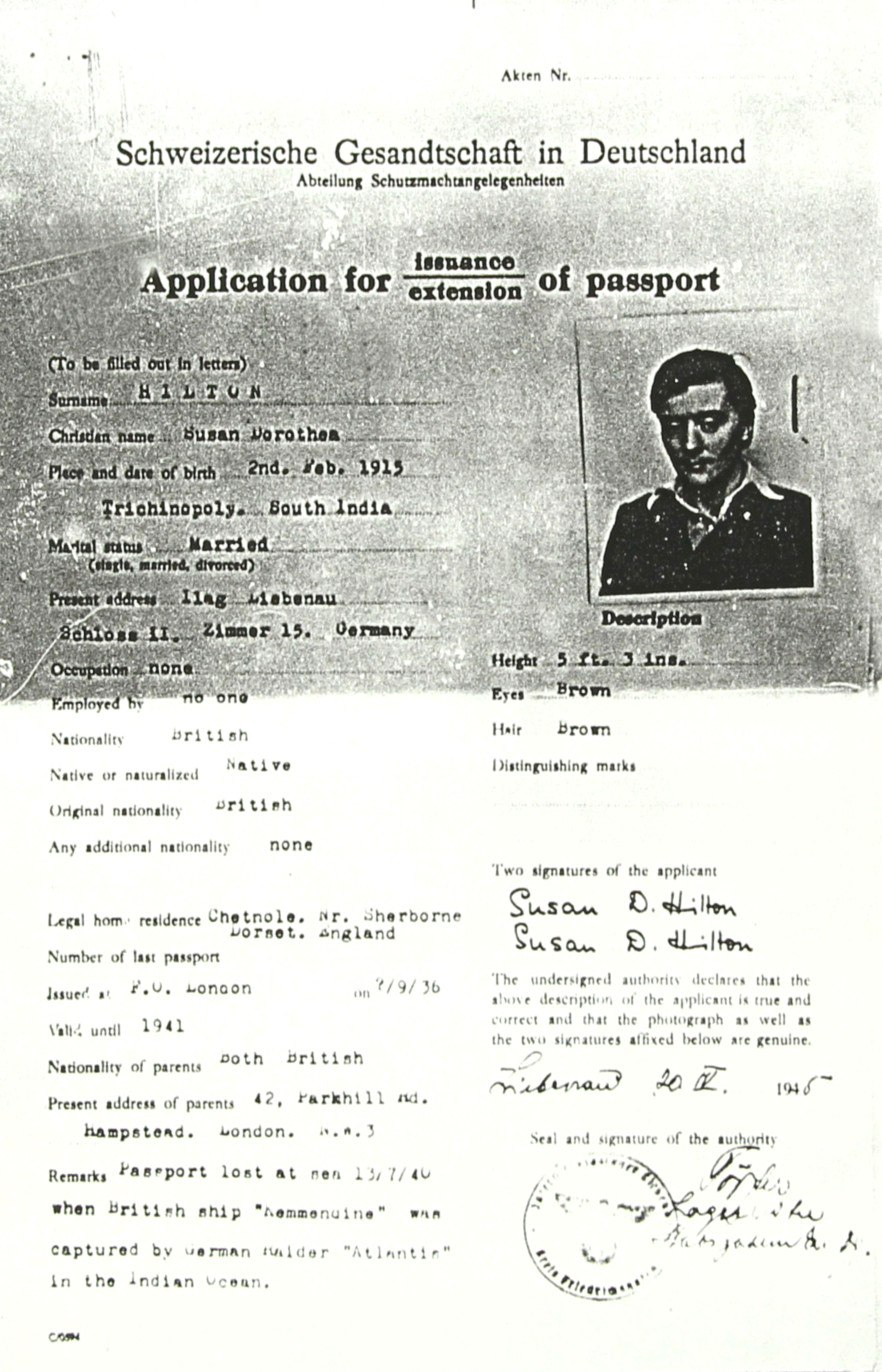 Susan Hilton Swiss Embassy in Germany passport application 1945